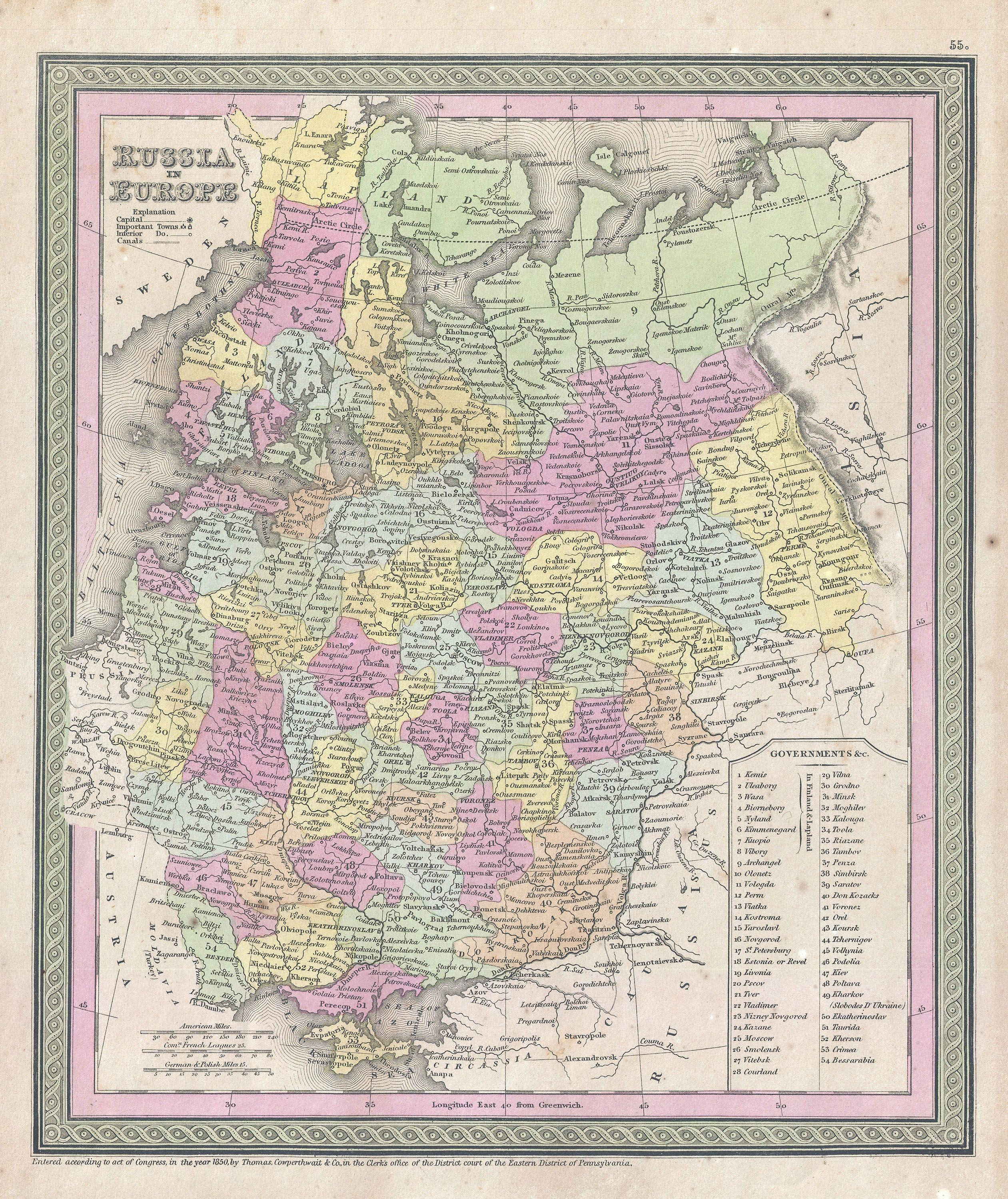 An attractive example of S. A. Mitchell Sr.’s 1853 map of the Russia in Europe. Includes the European portions of Russia as well as Finland, Ukraine, Latvia, Lithuania and Estonia. Depicts the entire country color coded according to individual regions. Surrounded by the green border common to Mitchell maps from the 1850s. Prepared by S. A. Mitchell for issued as plate no. 55 in the 1853 edition of his New Universal Atlas . Dated and copyrighted, “Entered according to act of Congress, in the year 1850, by Thomas Cowperthwait & Co., in the Clerks office of the District court of the Eastern District of Pennsylvania.